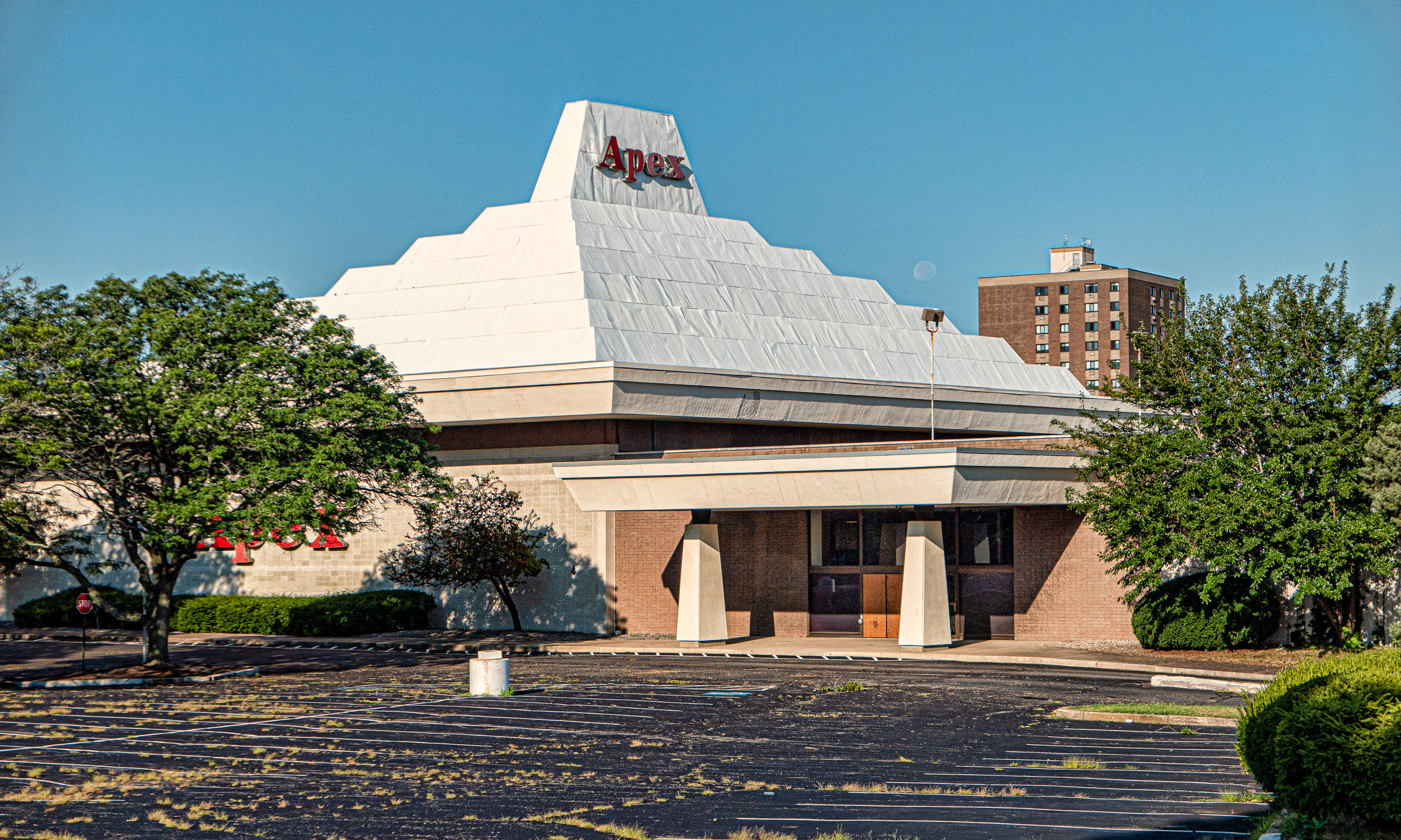 Apex Building, Pawtucket Rhode Island. This building with its ziggurat-shaped roof was built for Apex Department stores. Designed by Andrew Geller. Built 1969.